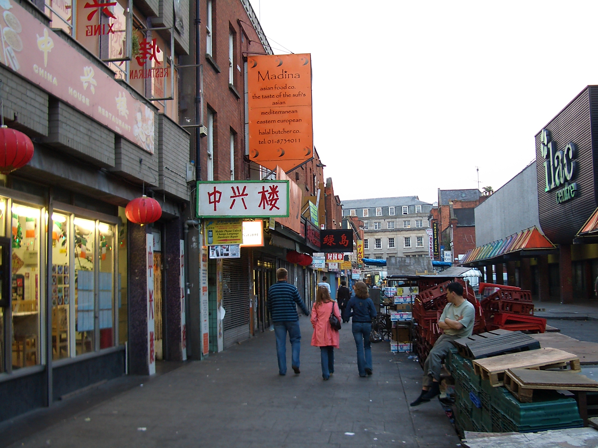 Dublin's Chinatown. Moore Street, looking towards Henry Street.